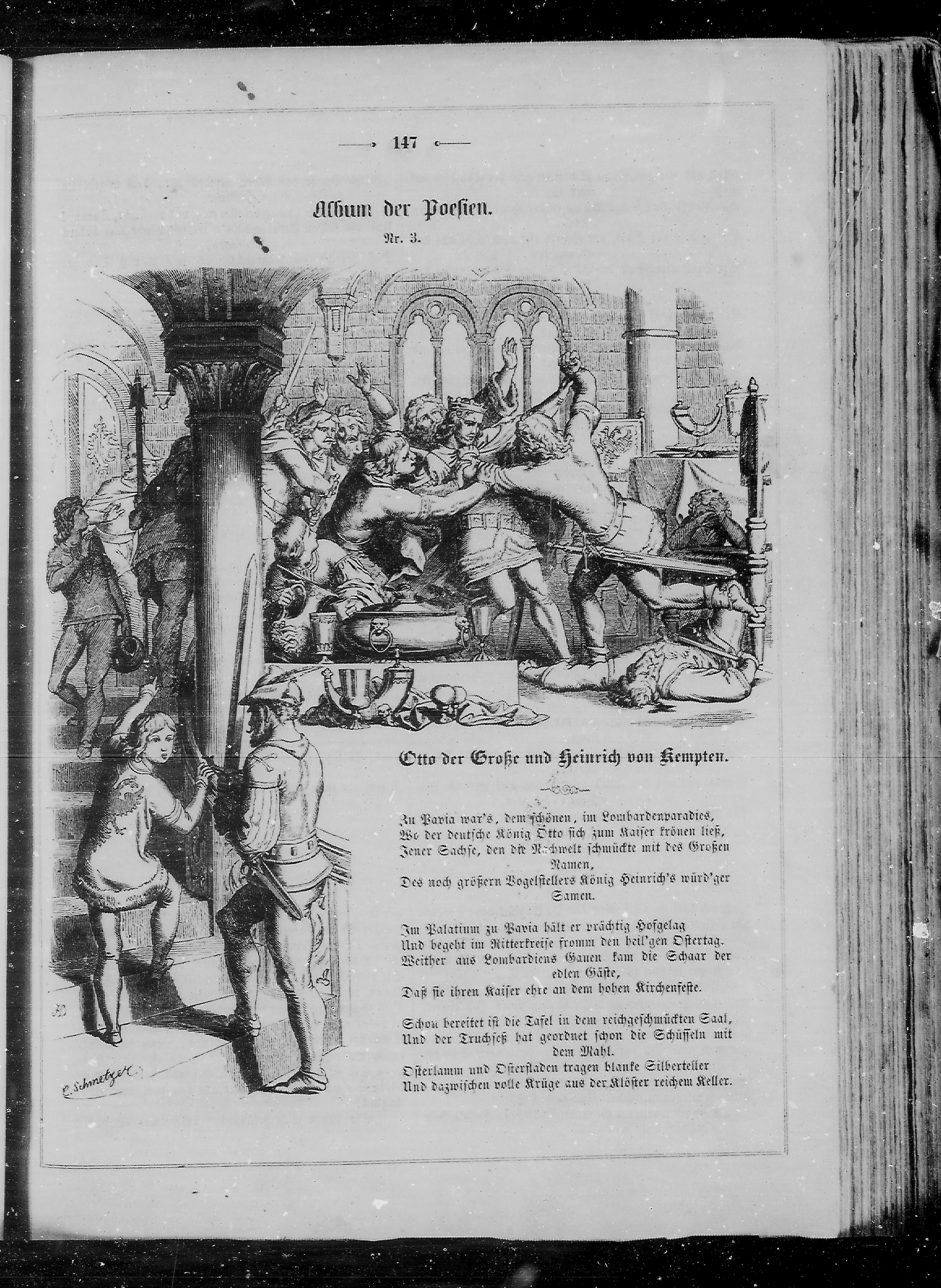 Page 147 from journal Die Gartenlaube, 1853. Extracted image (if any): File:Die Gartenlaube (1853) b 147.jpg - hi res, ~2.5 MB.